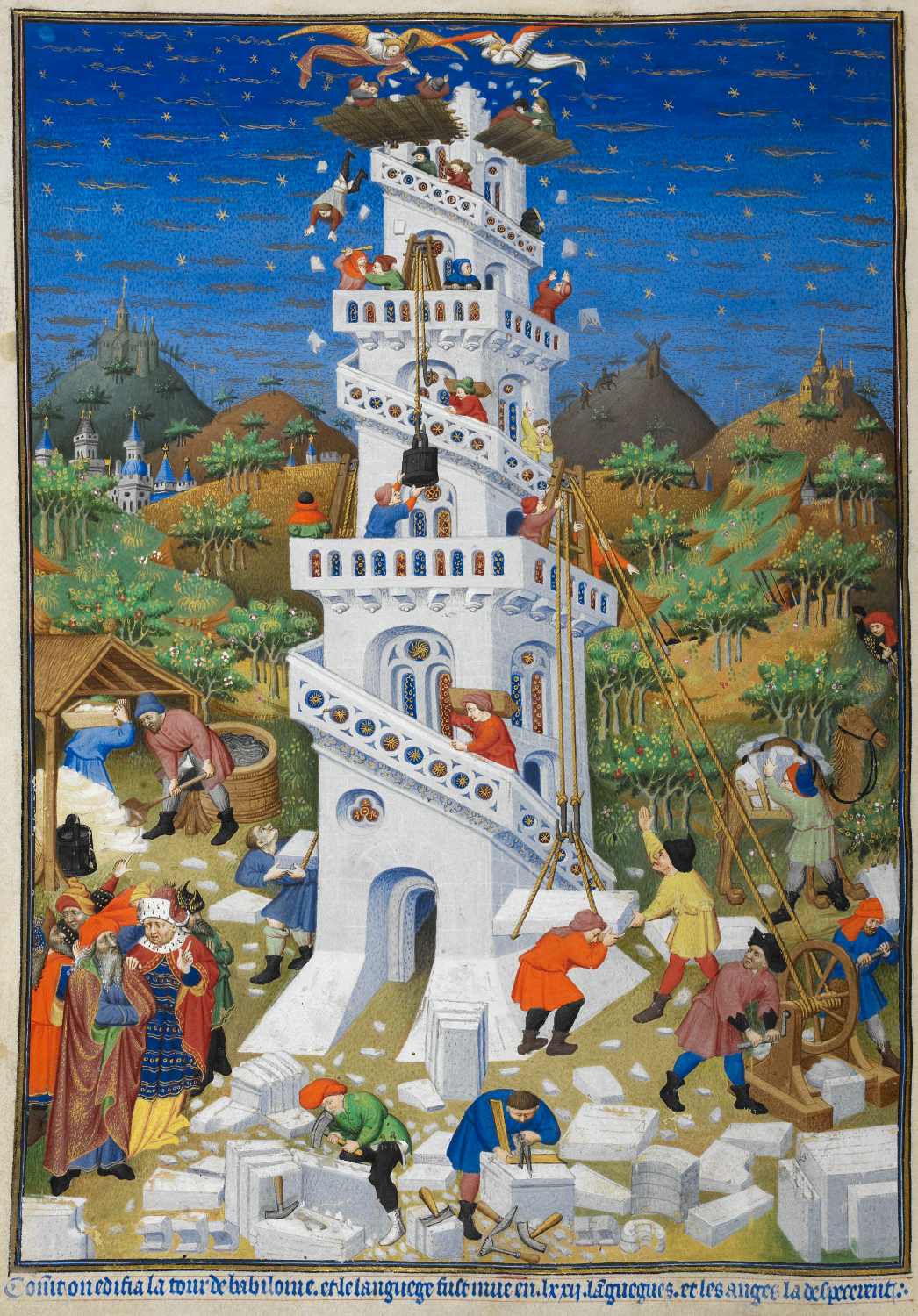 Building of the Tower of Babel; detail of a miniature from BL Add MS 18850, f. 17v (the "Bedford Hours"). Held and digitised by the British Library.